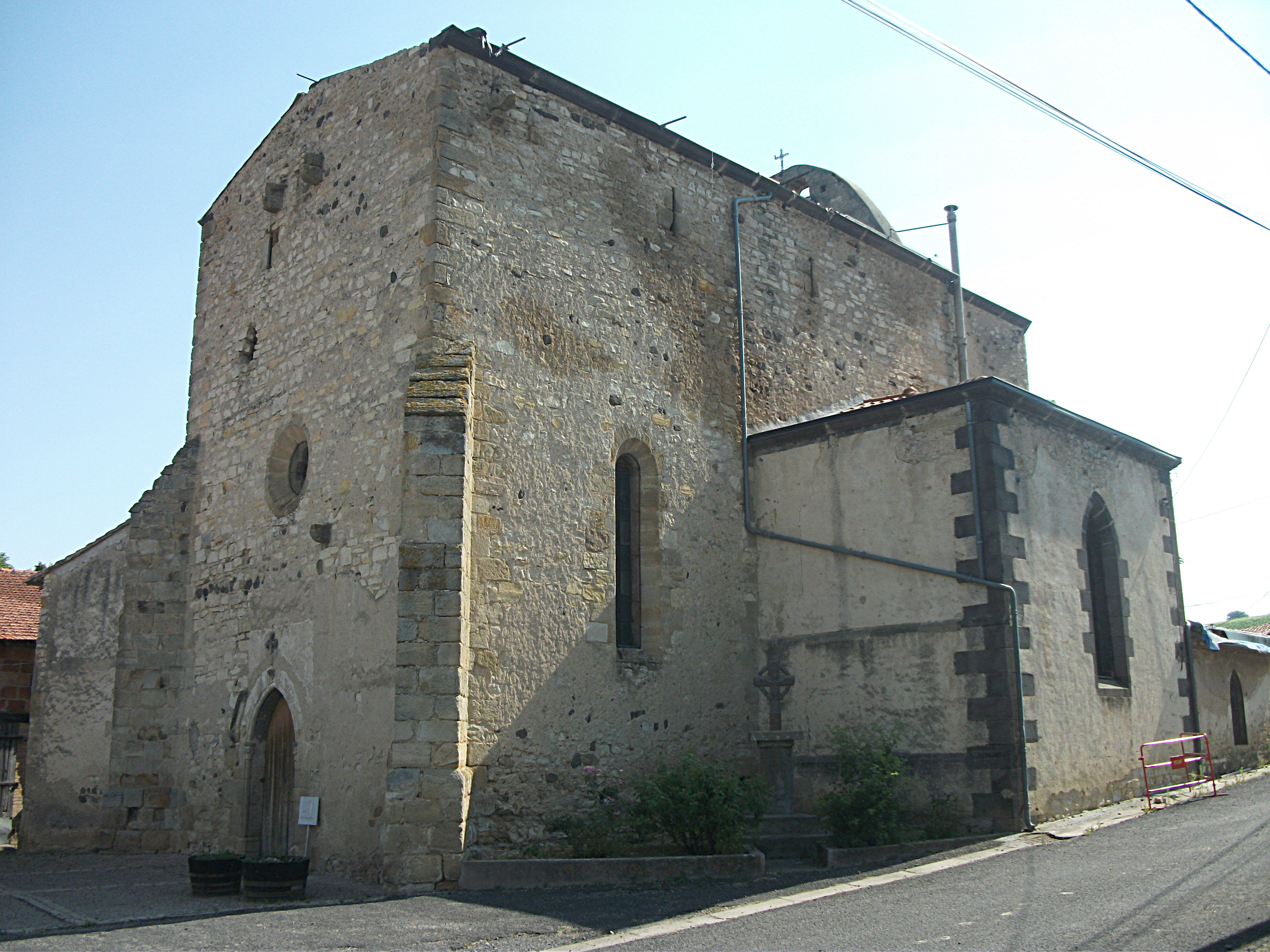 Church of Reignat, Puy-de-Dôme, Auvergne-Rhône-Alpes, France. [14705]